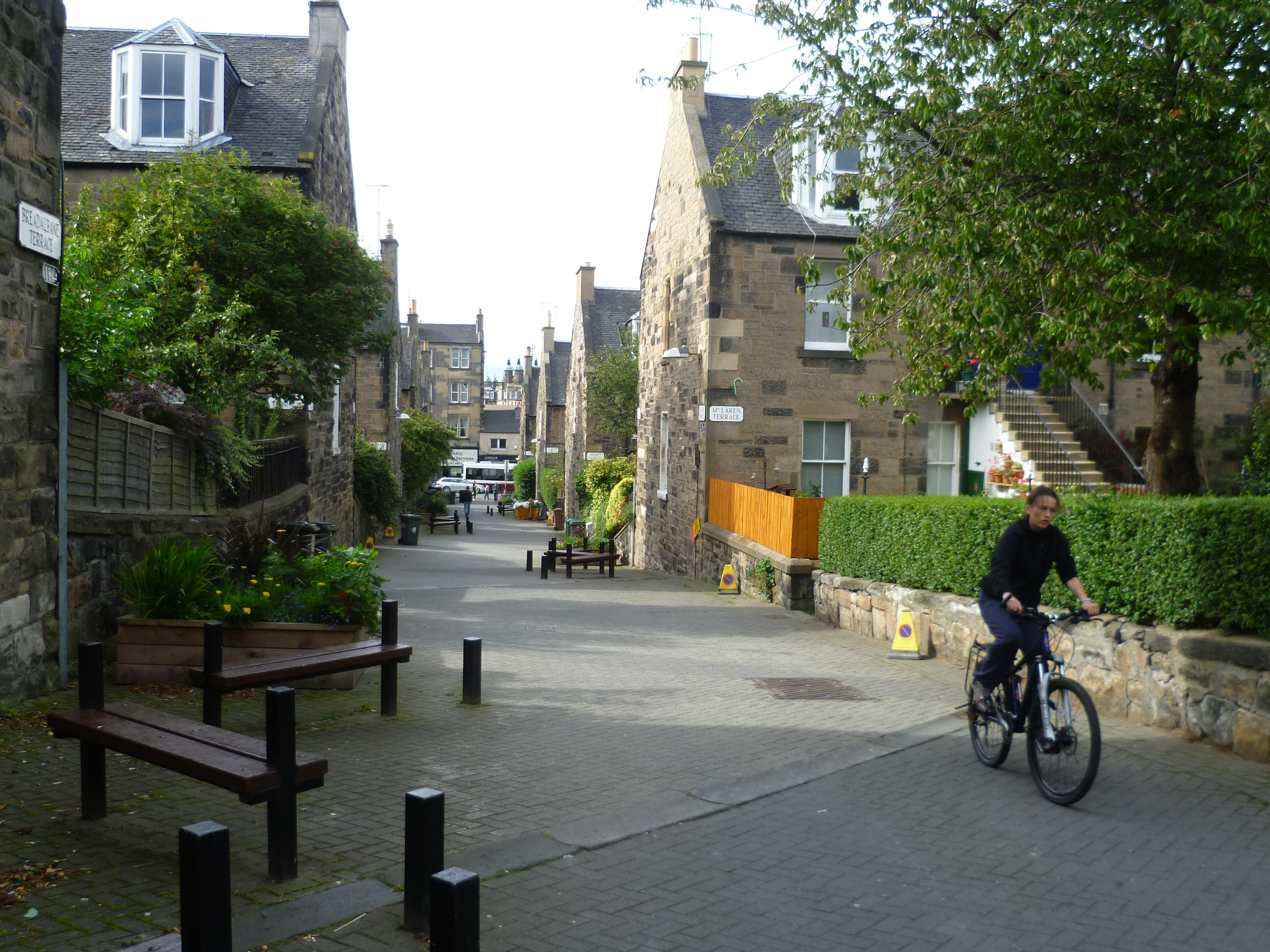 Dalry 'Colonies', near Haymarket